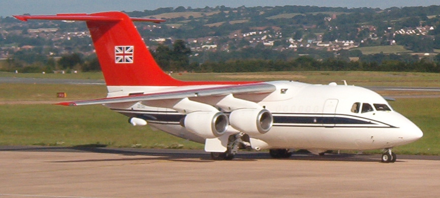 A BAe 146 CC.2 (BAe 146-100 Statesman) ZE701 (cn E1029) of No. 32 (The Royal) Squadron on the tarmac.